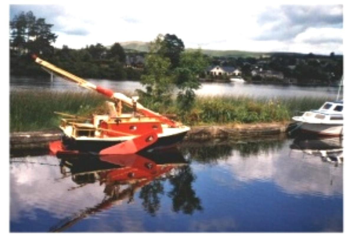 personal picture owned by Kerrin Attig taken by her father and given to her in 2007 Emailed to me for use anywhere by anyone